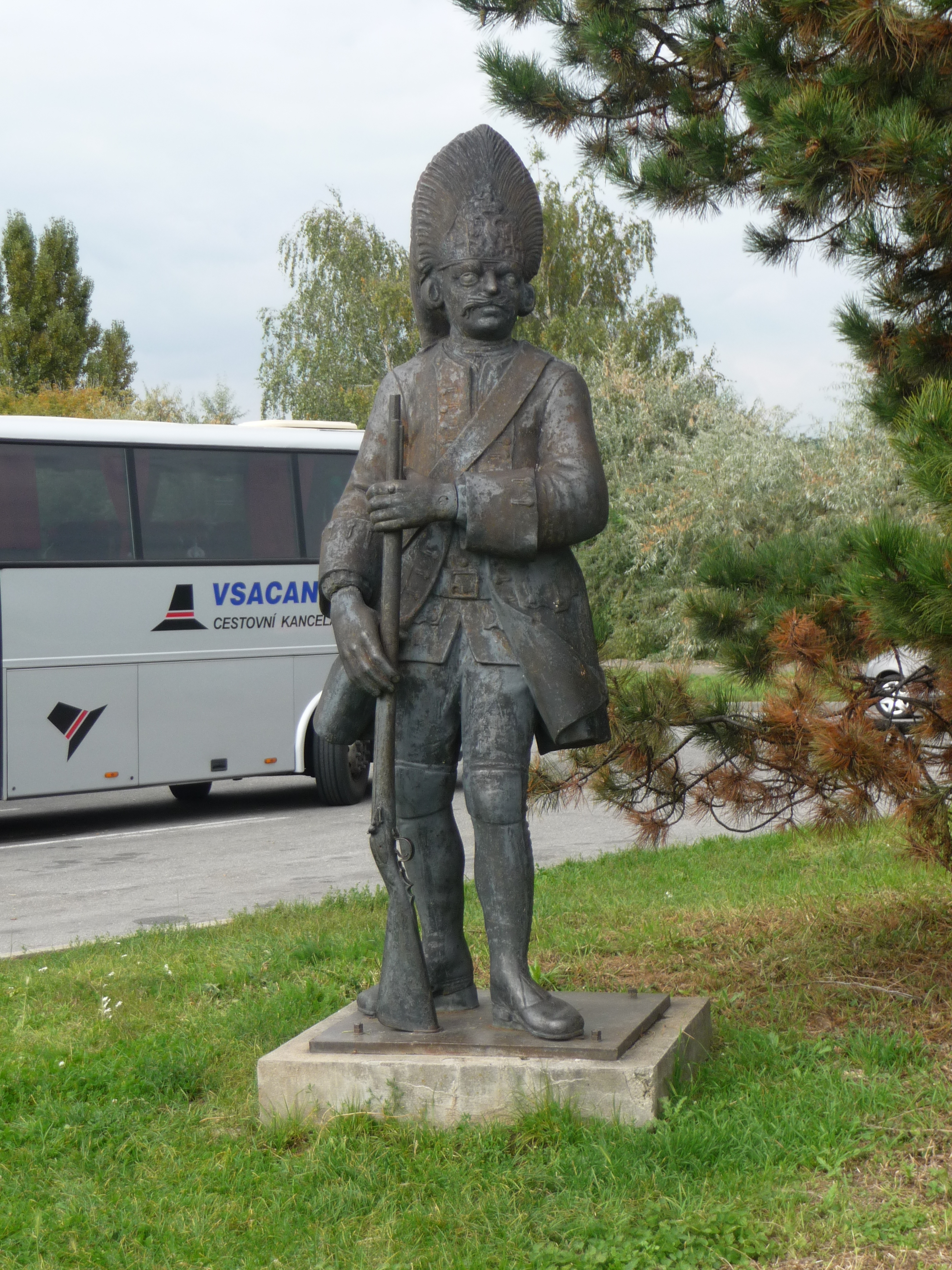 Soldier memorial near Austerlitz battlefield, Rohlenka